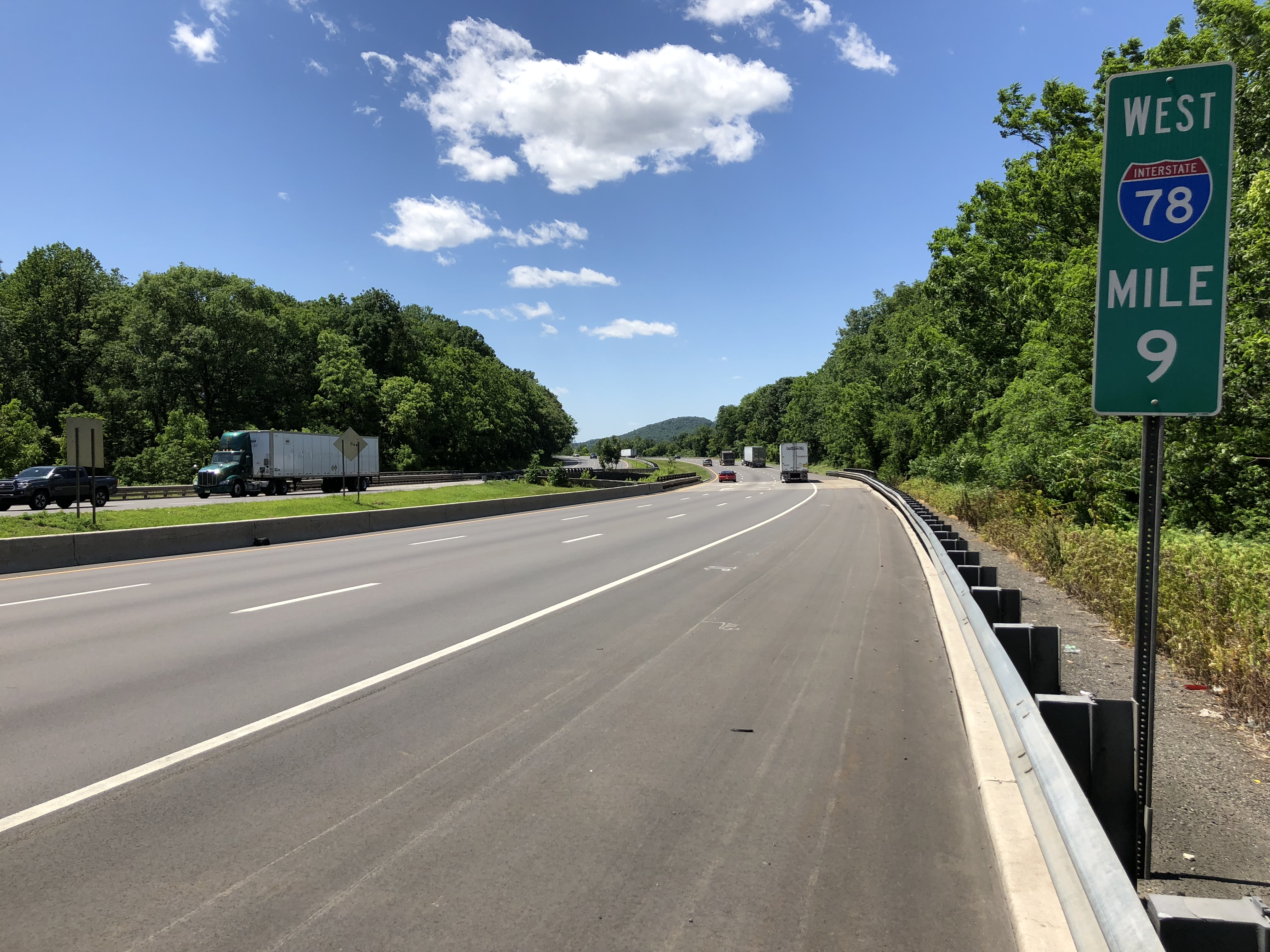 View west along Interstate 78 and U.S. Route 22 (Phillipsburg-Newark Expressway) between Exit 11 and Exit 7 in Bethlehem Township, Hunterdon County, New Jersey